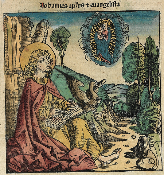 This is a part of a scan of an historical document: Title: Schedelsche Weltchronik or Nuremberg Chronicle